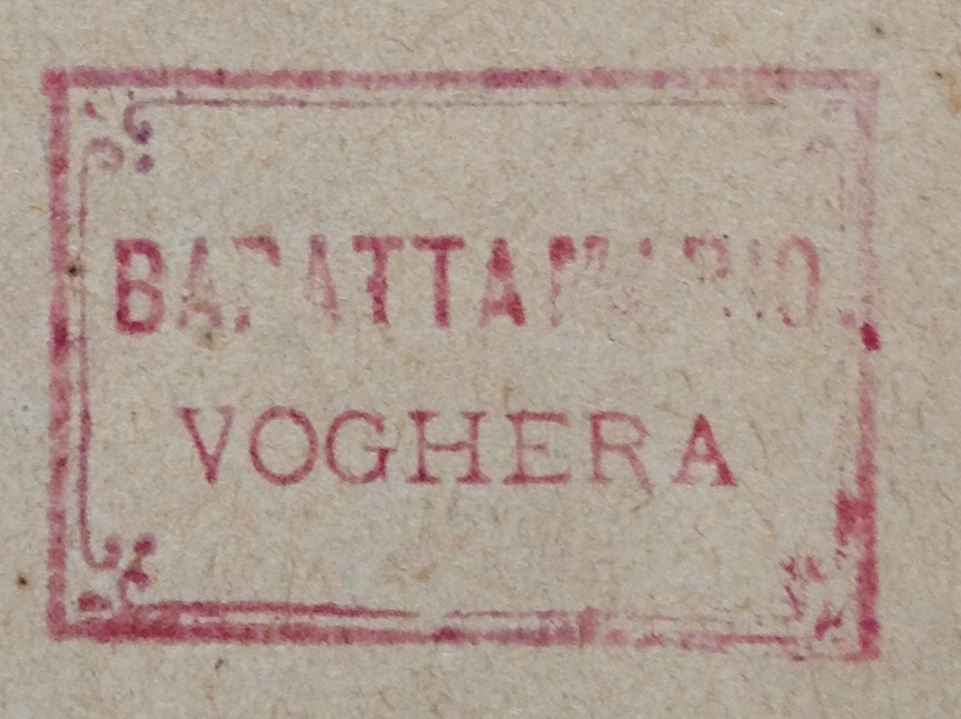 Mario Baratta red stamp